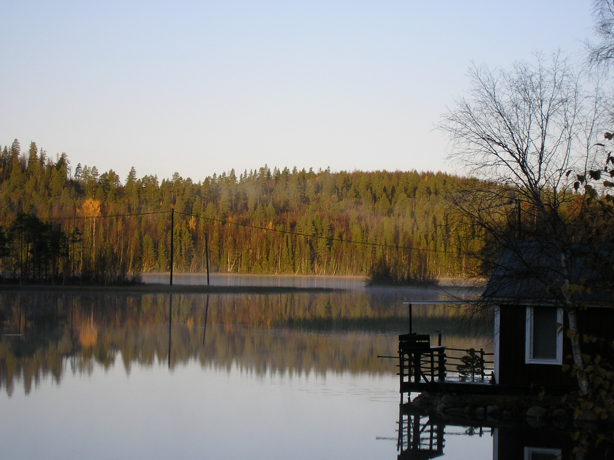 Tornevalley